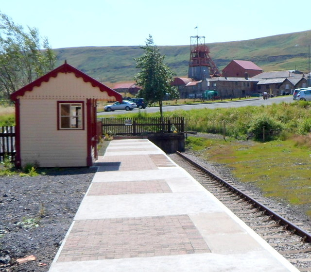 Beyond the end of the line, Big Pit Halt, Blaenavon